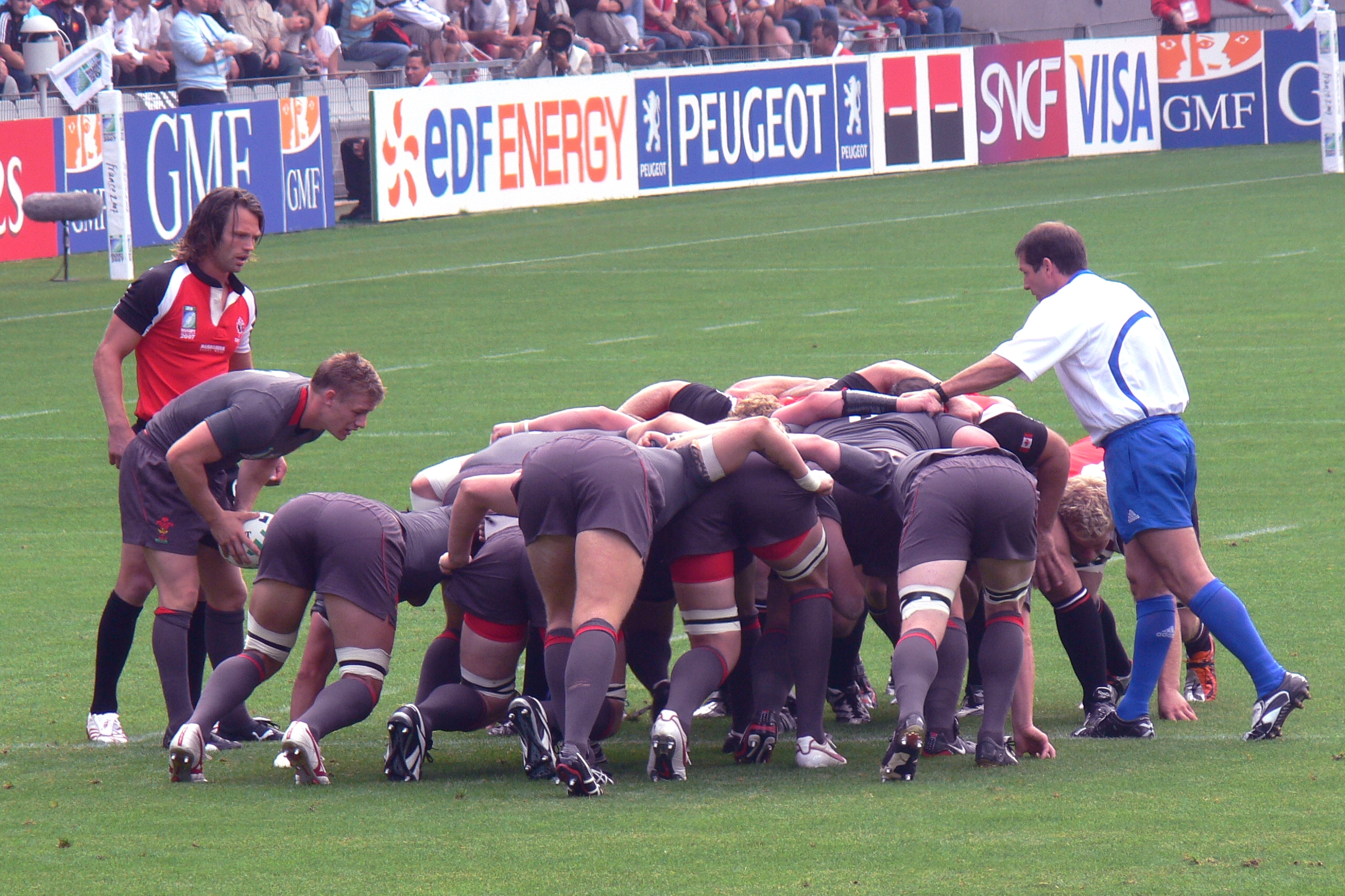 Rugby World Cup 2007